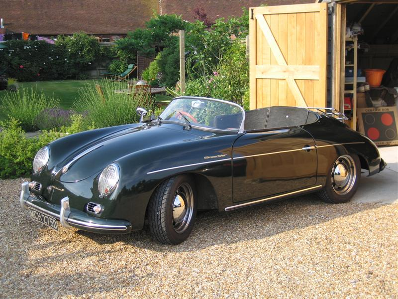 Sigh, sold now!Porsche 356 Speedster Replica